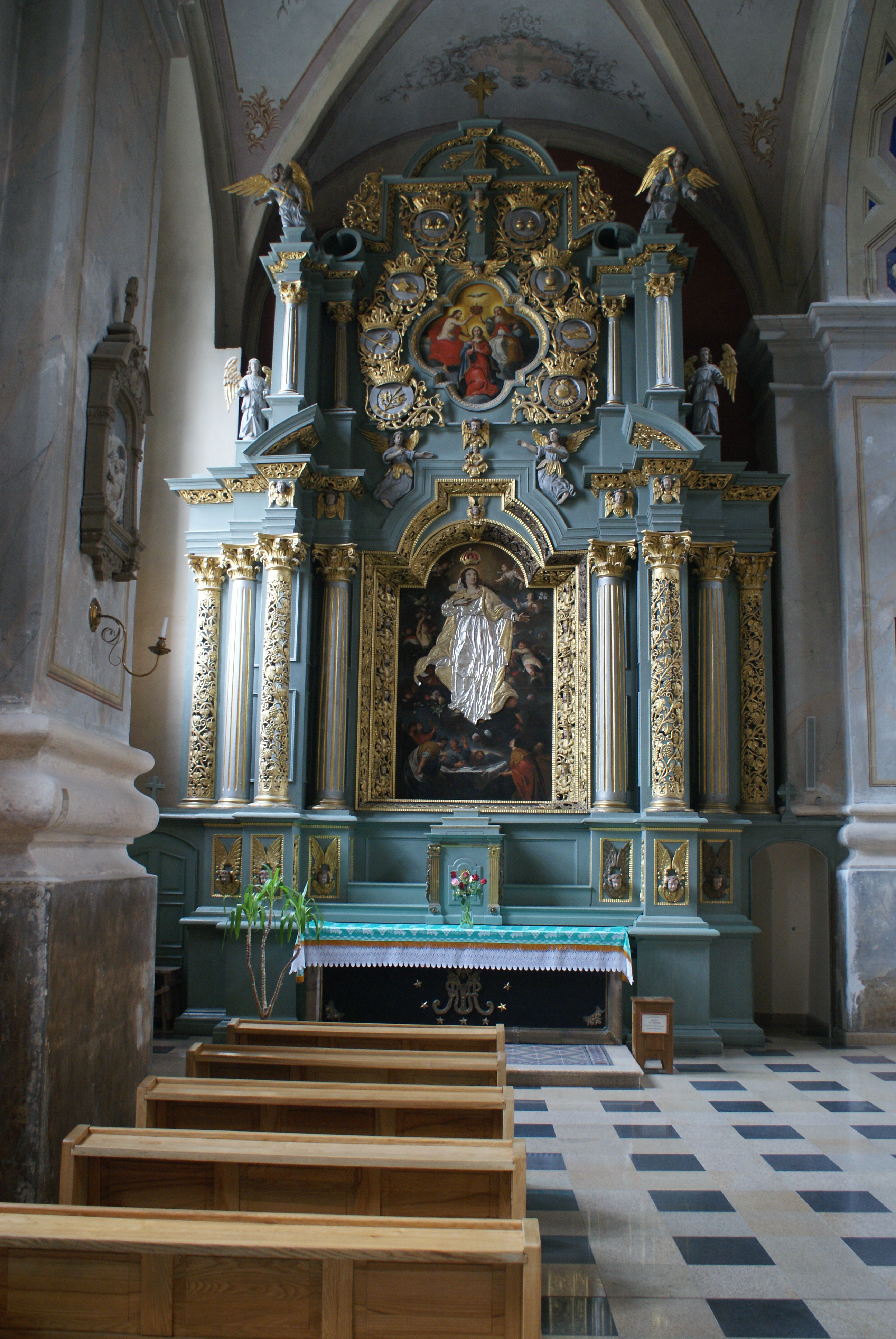 Kaunas Cathedral